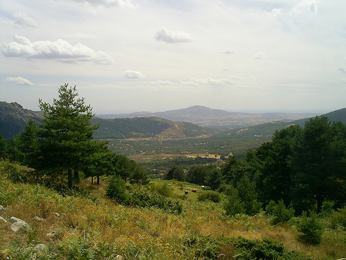 Canencia Pass is a monutain pass in the Community of Madrid, Spain